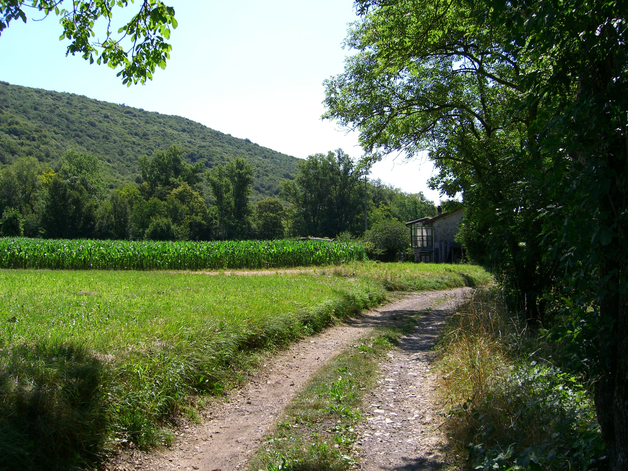 Dirt track near Camino Spinrola in Meride, Ticino, Switzerland